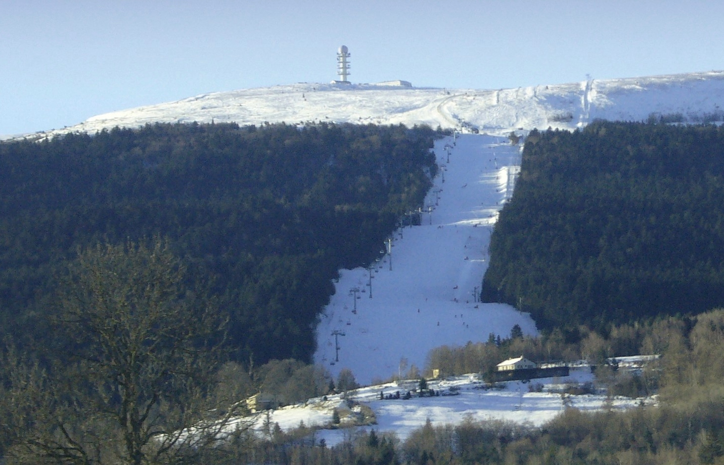 Pierre-sur-Haute (1 634 m) and the Chalmazel ski resort